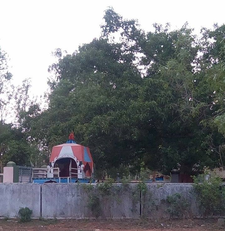 Lord Jagannath Temple